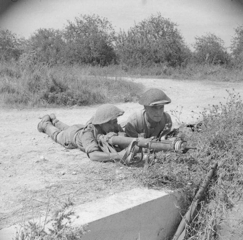 The British Army in Italy 1943 A PIAT team from 9th Royal Fusiliers in action, 10 September 1943.